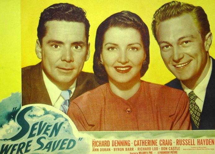 Left to right: Russell Hayden, Catherine Craig (1915 – 2004), and Richard Denning in Seven Were Saved 91947) - lobby card (cropped : see source)